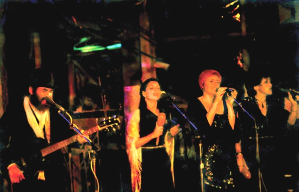 1/ All users of this image are required to attribute this work to "Nambassa Trust and Peter Terry" and the url: " " is to accompany all use. 2/ Attribution. You must attribute the work in the manner specified by the author or licensor. 3/ For any reuse or distribution, you must make clear to others the license terms of this work. Statement by Nambassa Trust and Peter Terry